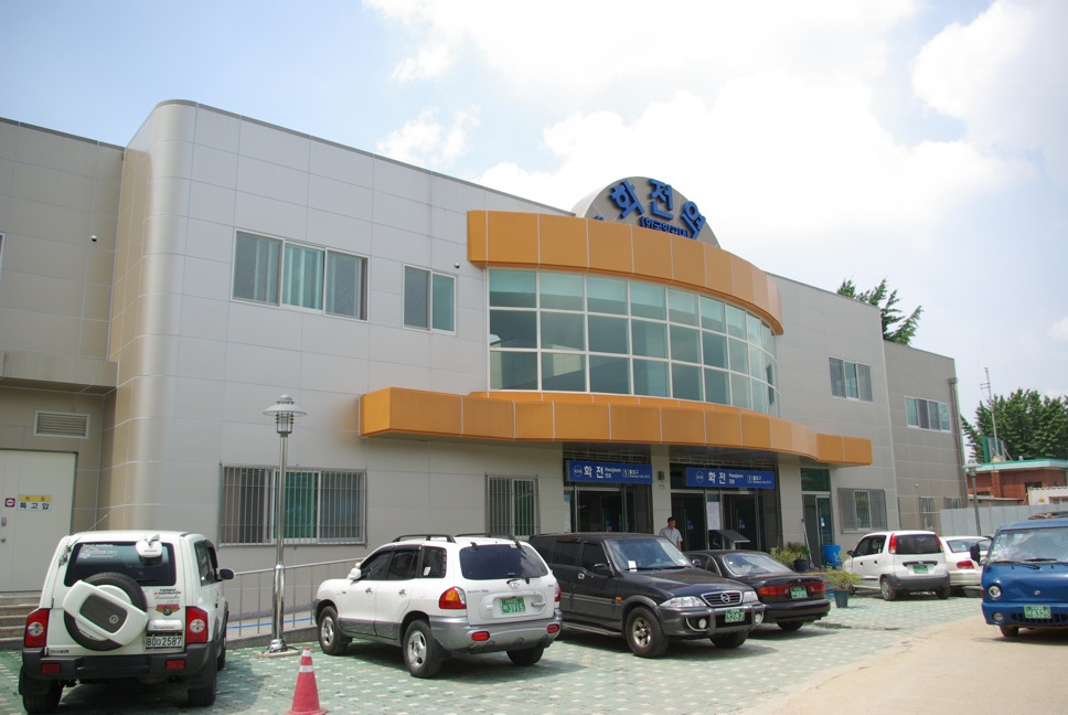 Hwajeon Station Gyeongui Line (2009)